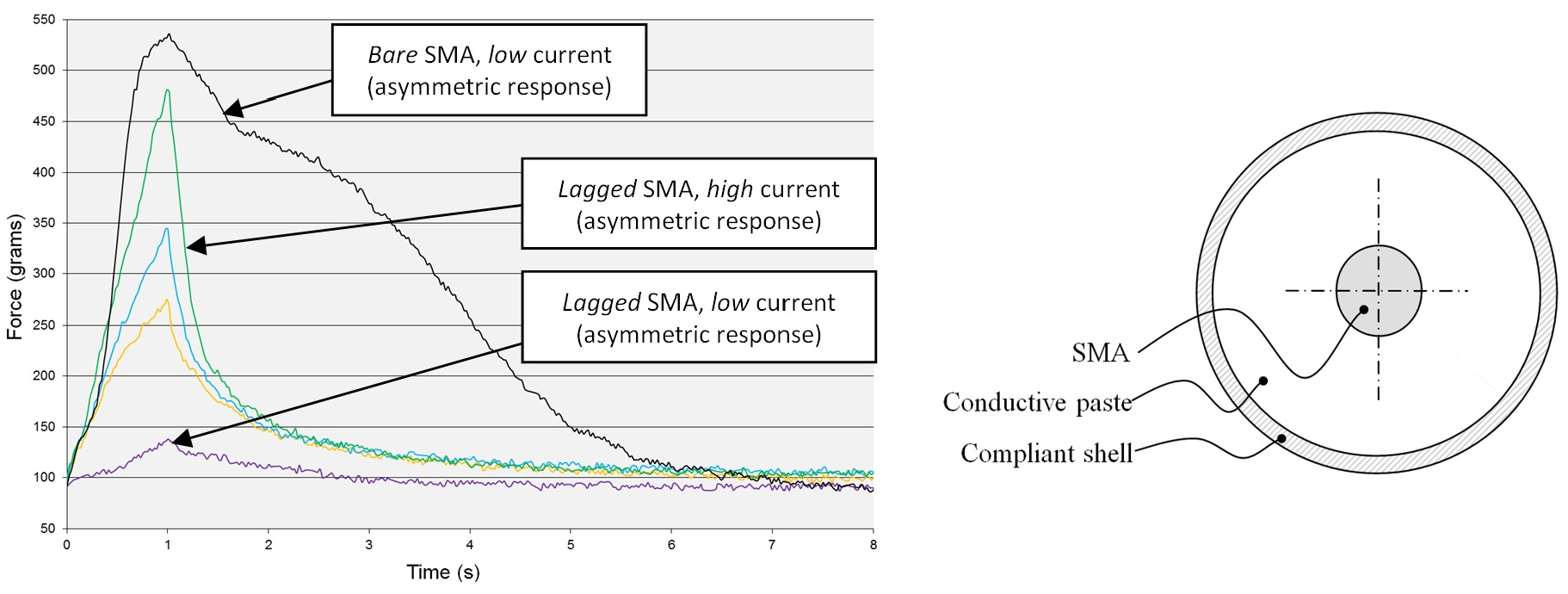 This work shows the comparative force-time response of bare and lagged Ni-Ti shape memory alloy. It is an original work by Leary, Schiavone and Subic. 2010.